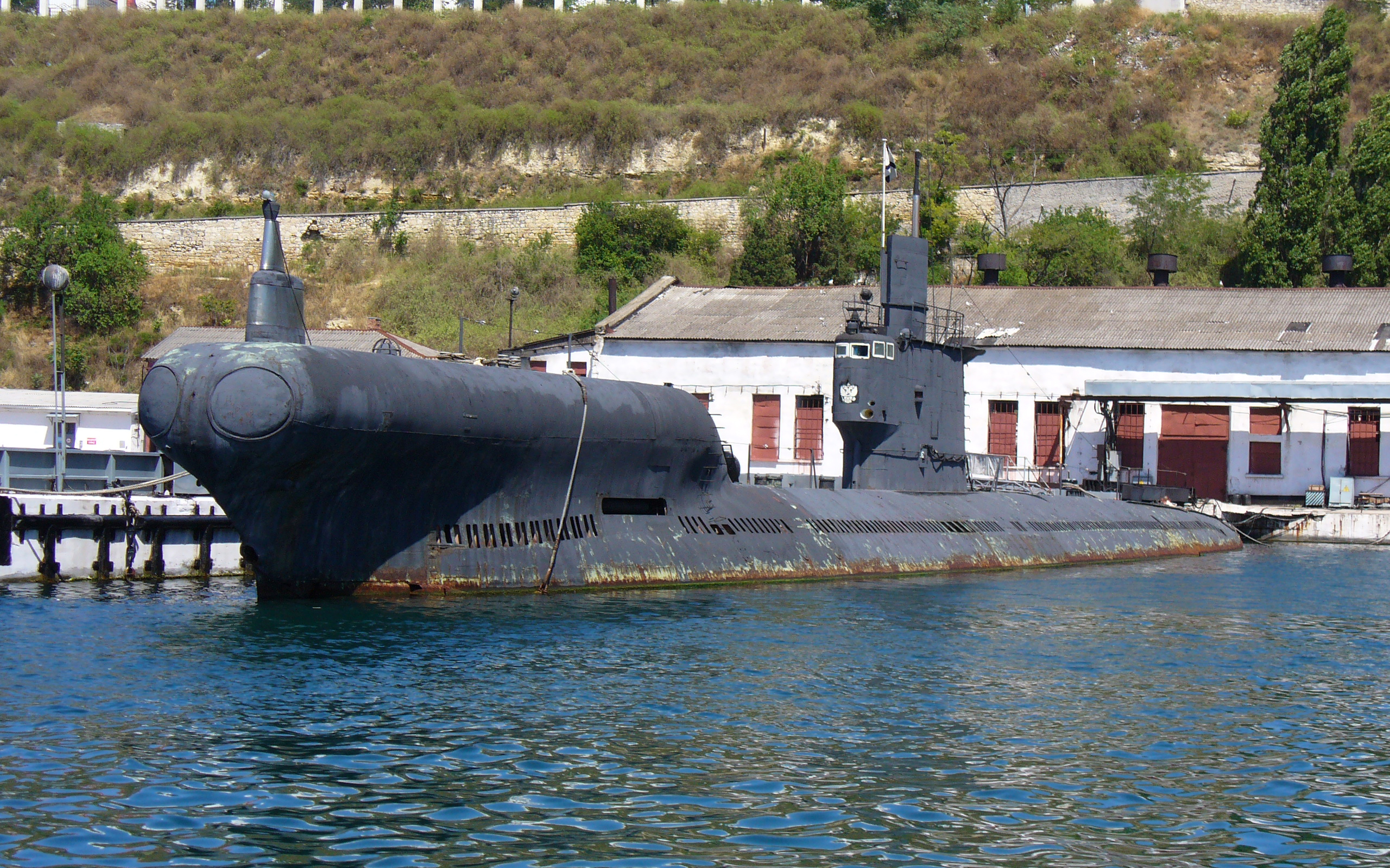 The Russian submarine PZS-50. Southern bay of Sevastopol, Russian navy, 2008. Project 633 build in USSR in 1961, modernized to Project 633RV in 1972. Other names: S-49, SS-49. Finally named PZS-50 in 1995. Romeo class submarine.